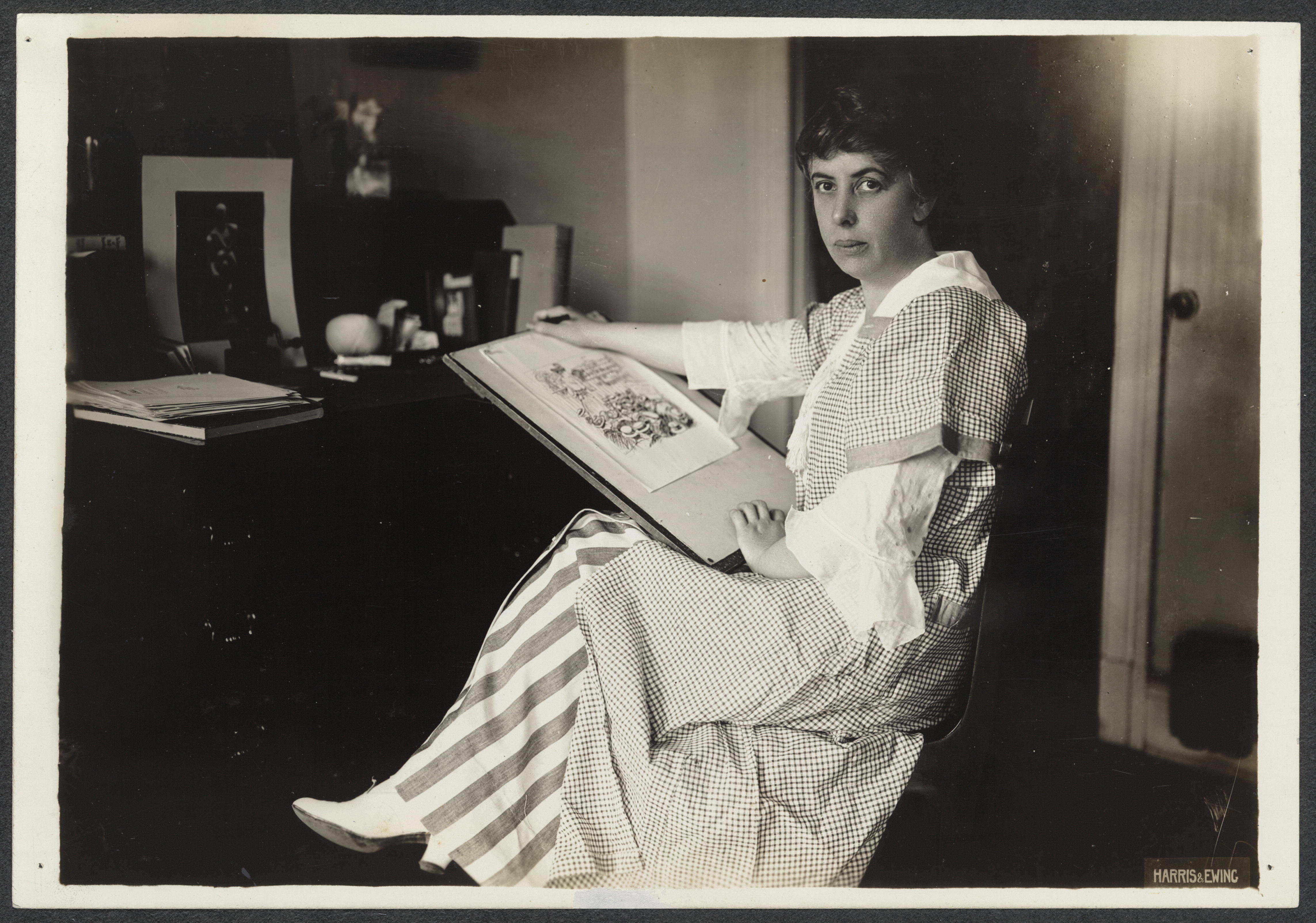 Informal portrait, Nina E. Allender, full-length, seated at desk, facing left with head turned toward camera, holding a cartoon sketch in her lap.